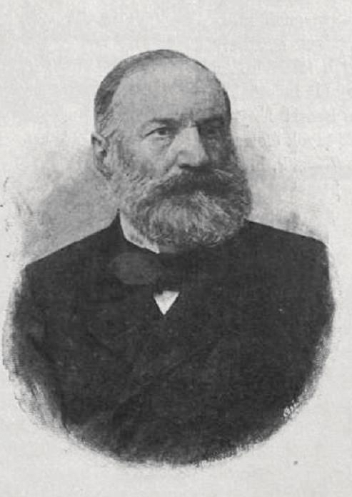 Áron Szilády